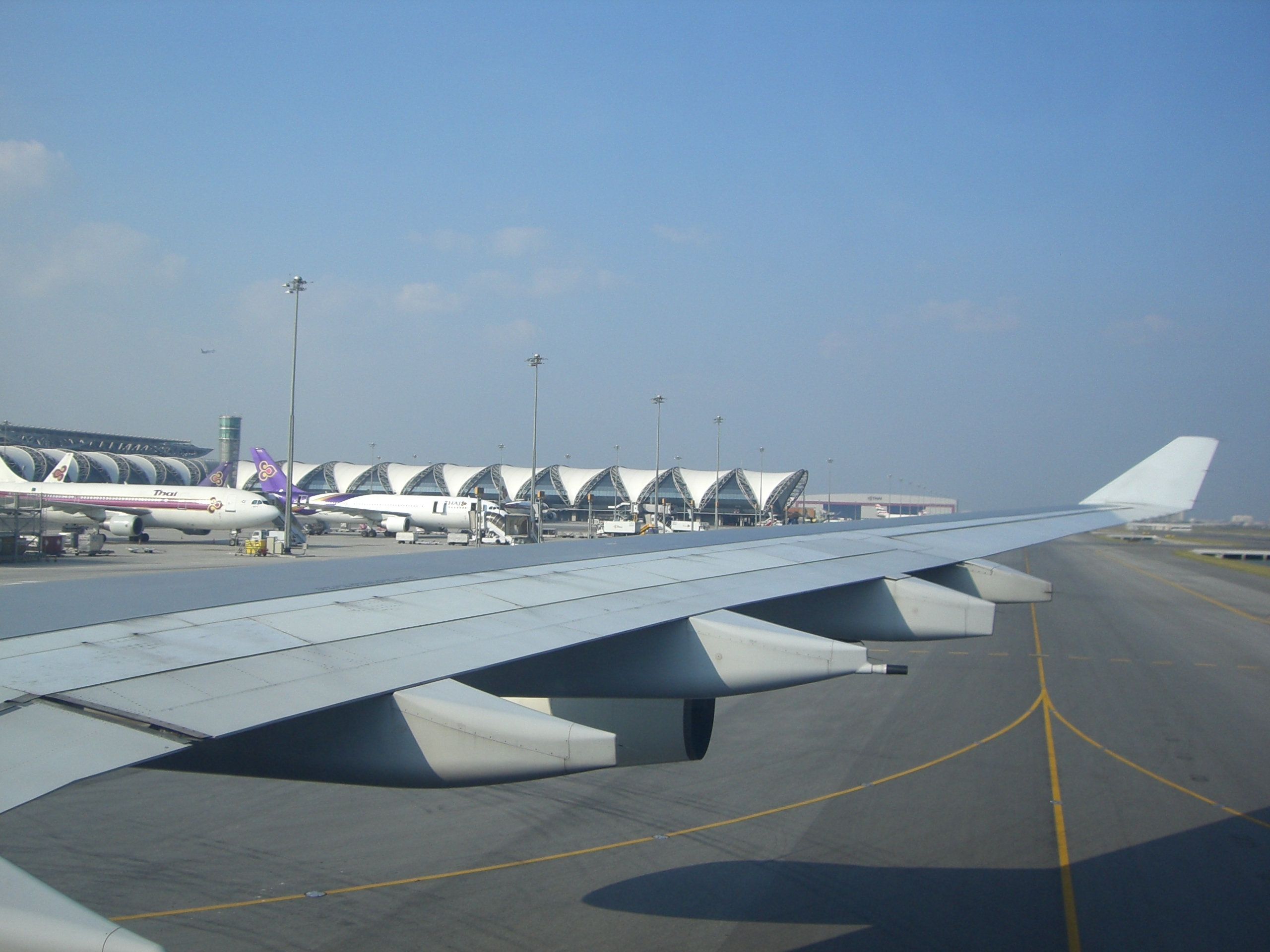 Suvarnabhumi International Airport